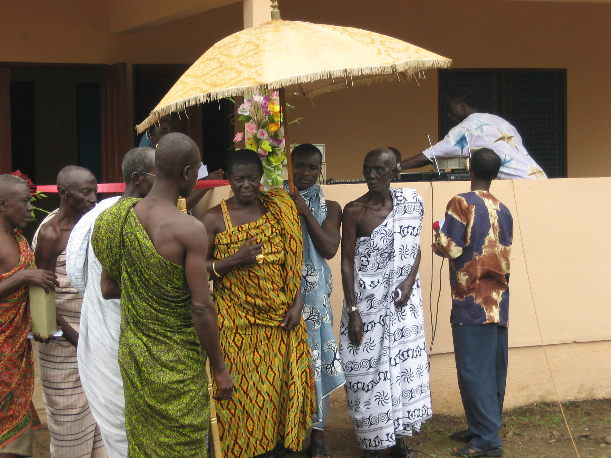 Local chiefs of the Ashanti during a presentation of microprojekt financed by the European Union in West Sekyere district, Ghana.